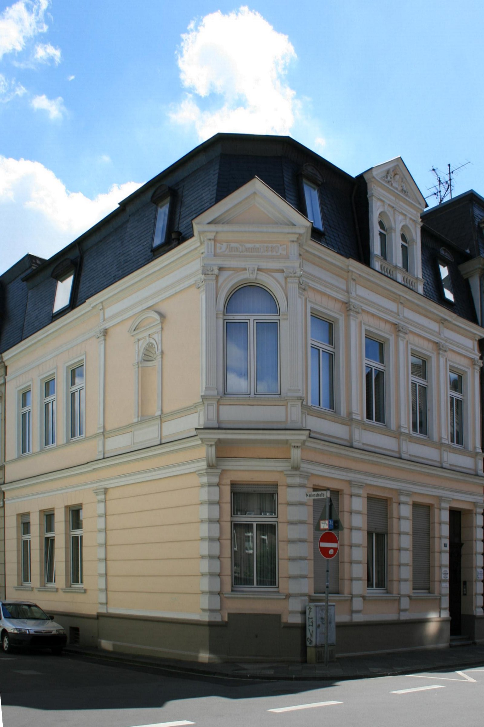 Cultural heritage monument No. E 012 in Mönchengladbach